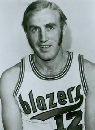 Professional basketball player and coach Rick Adelman